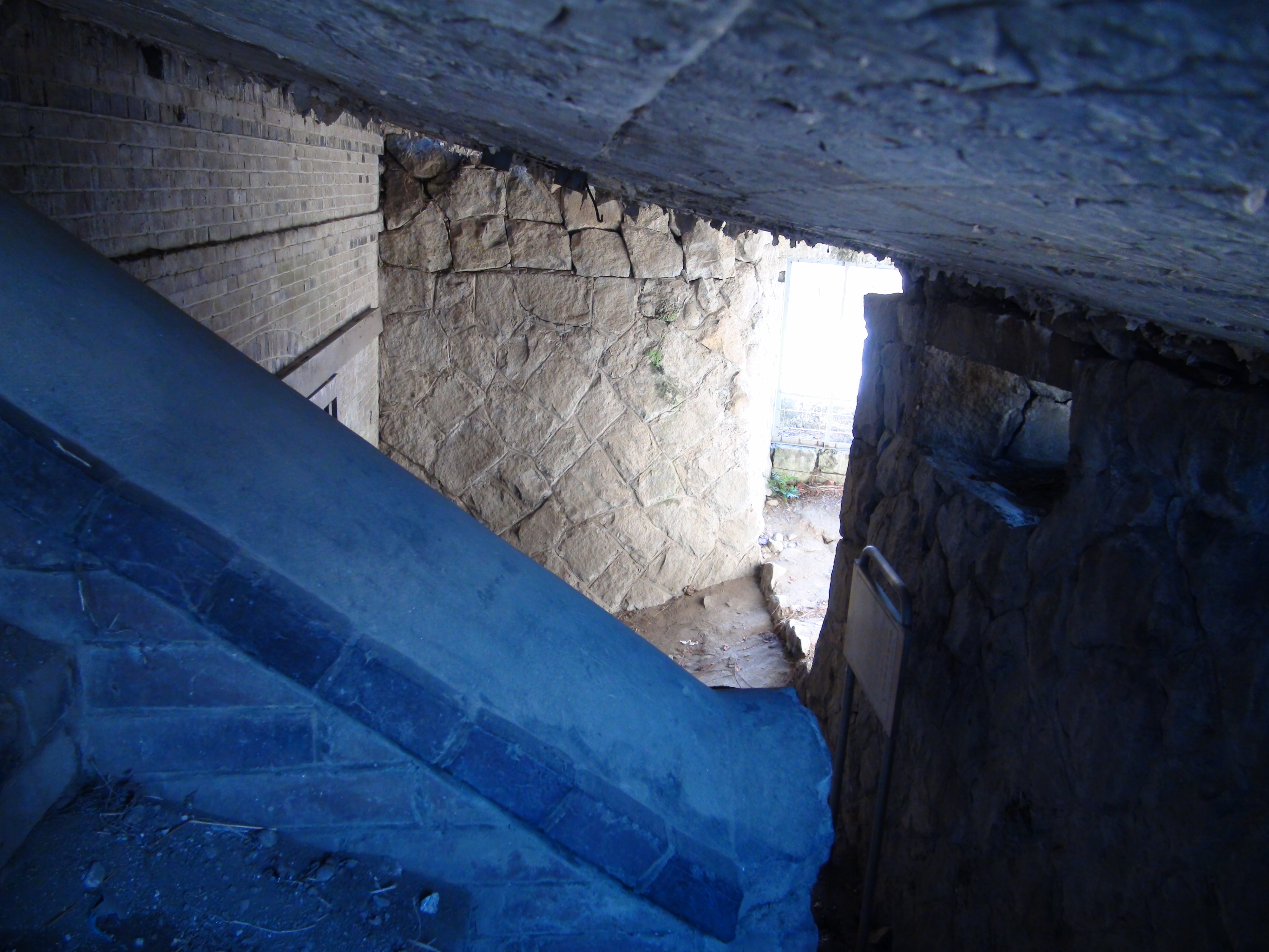 It looked in through the small window on the east of Ryuken cellars